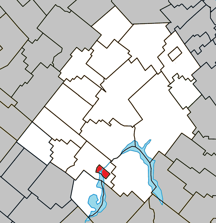 Location of Disraeli (city), Quebec within Les Appalaches Regional County Municipality.